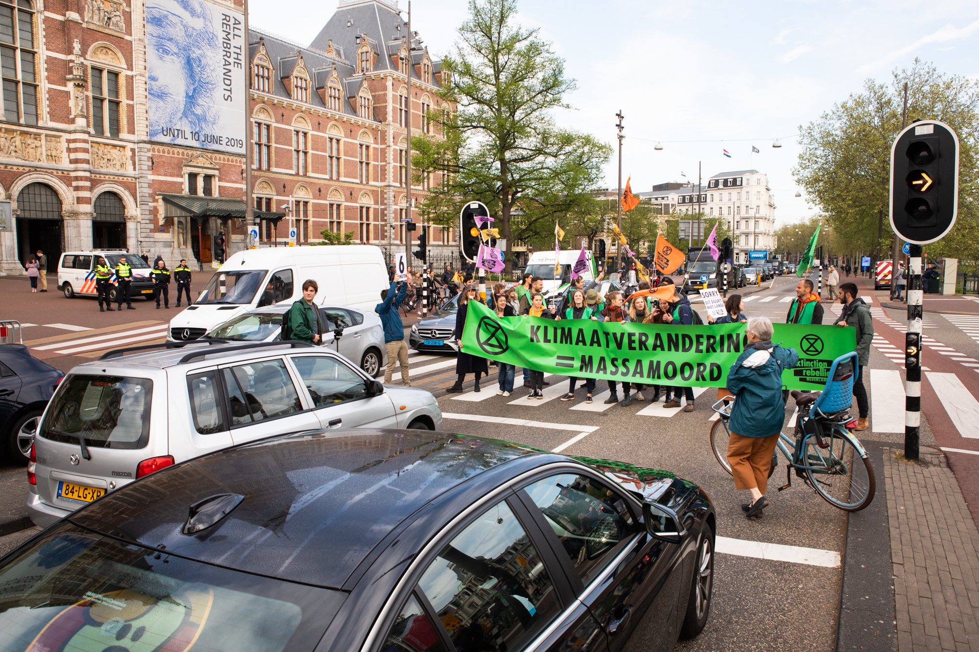 Using the tactic of swarming, activists block traffic outside the Rijksmuseum in Amsterdam.